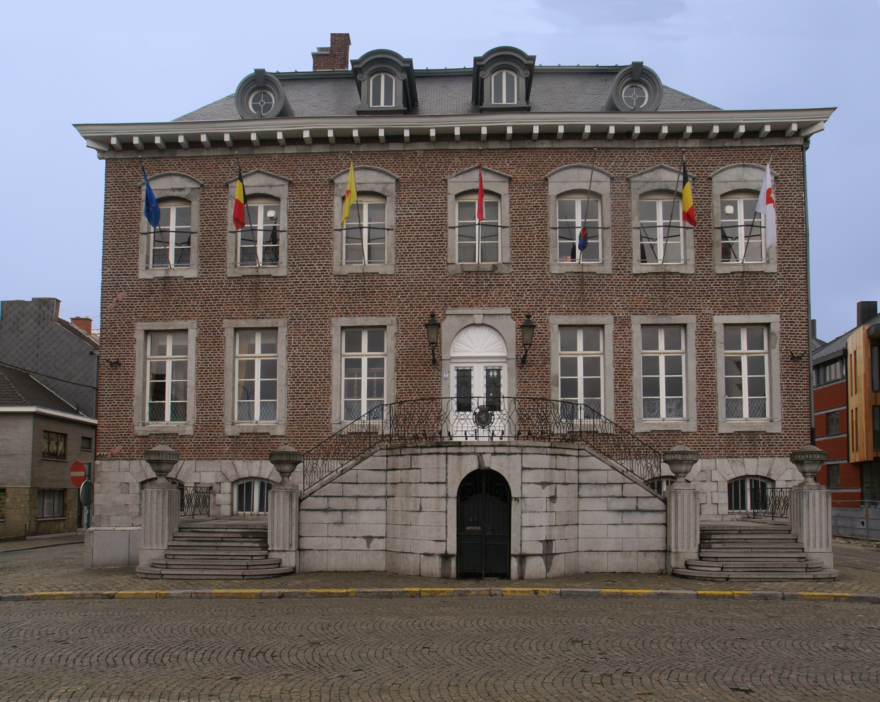 Seraing, Belgium: The town hall